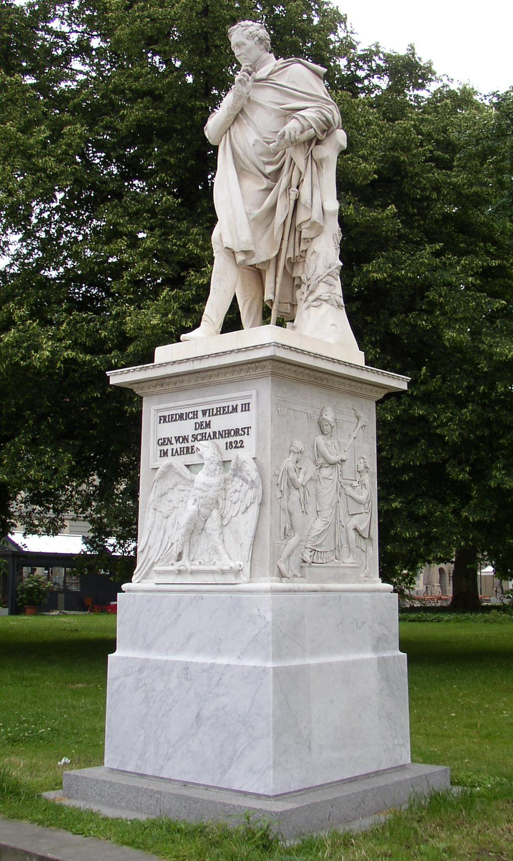 Statue of Gerhard von Scharnhorst, Unter den Linden, Berlin-Mitte, Germany (sculptor: Christian Daniel Rauch)